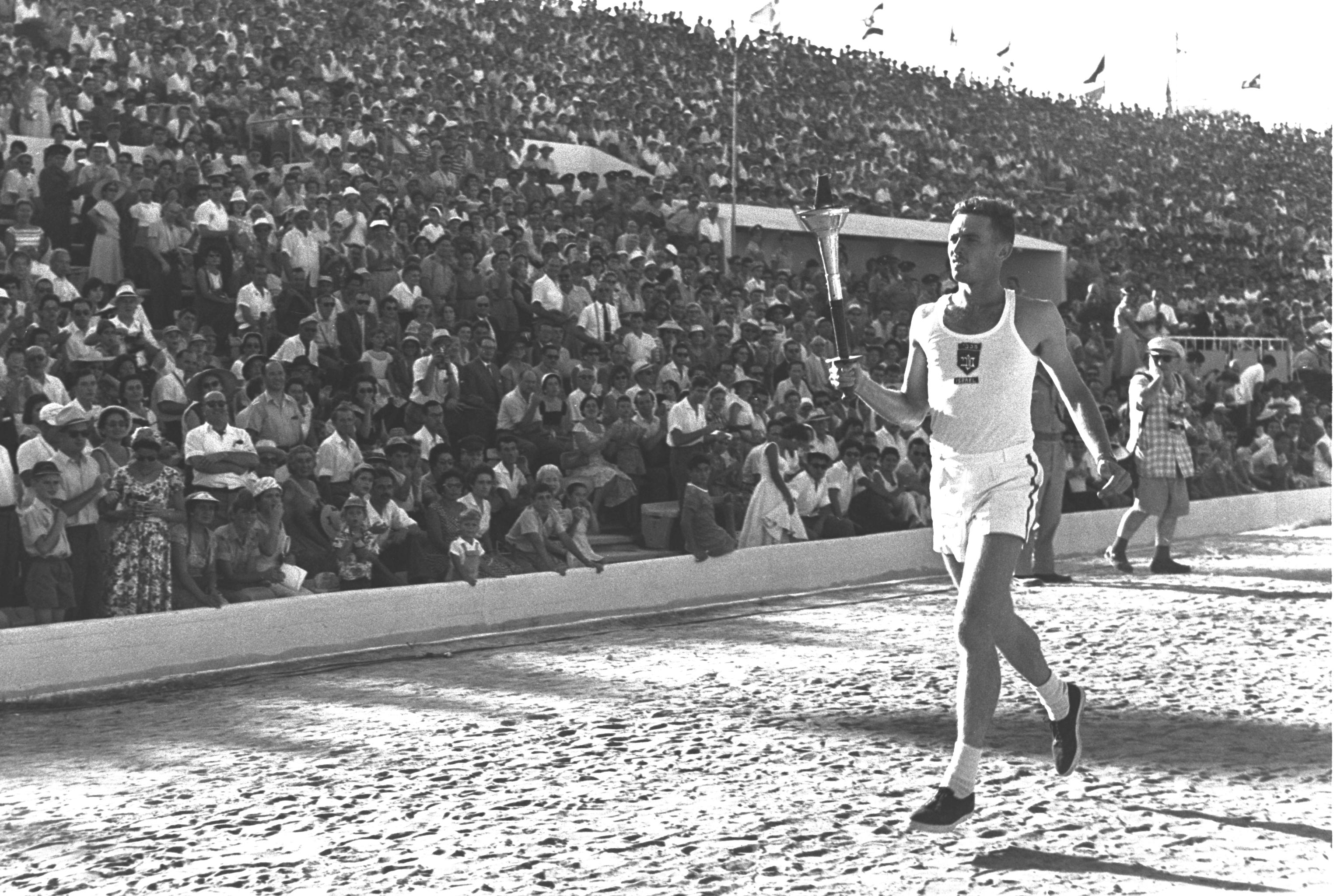 ARYE NAVEH CARRYING THE TORCH DURING THE OPENING CEREMONY OF THE 5TH MACCABIA GAMES, HELD AT THE RAMAT GAN STADIUM.